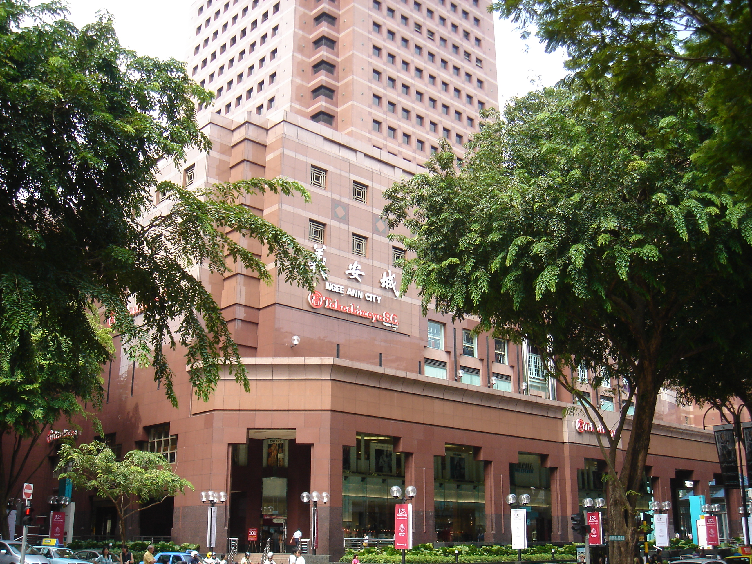 Exterior view of Ngee Ann City, Orchard Road.